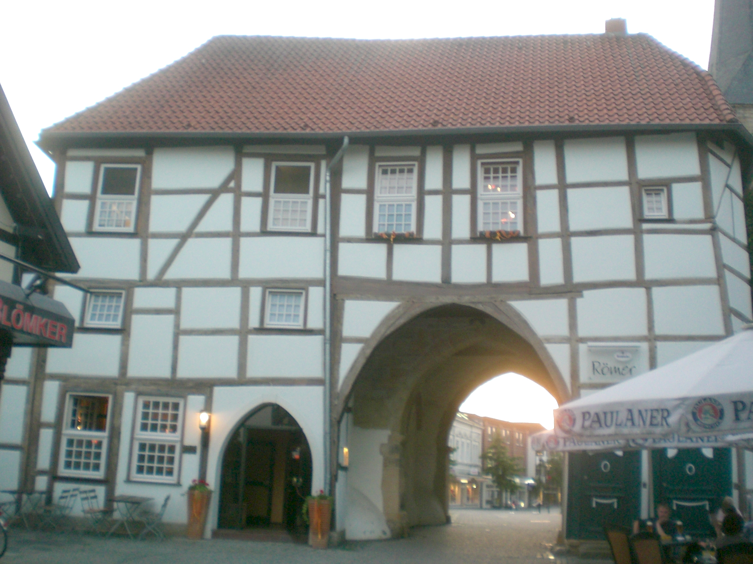 The historical gate Römer in Lengerich, Northrhine-Westphalia, Germany